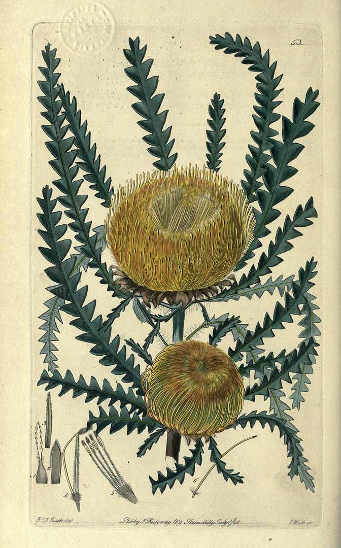 Dryandra formosa R. Br. - R. Sweet, Flora Australasica or a selection of handsome or curious plants native of New Holland and the south sea islands, t. 53 (1827-1828)